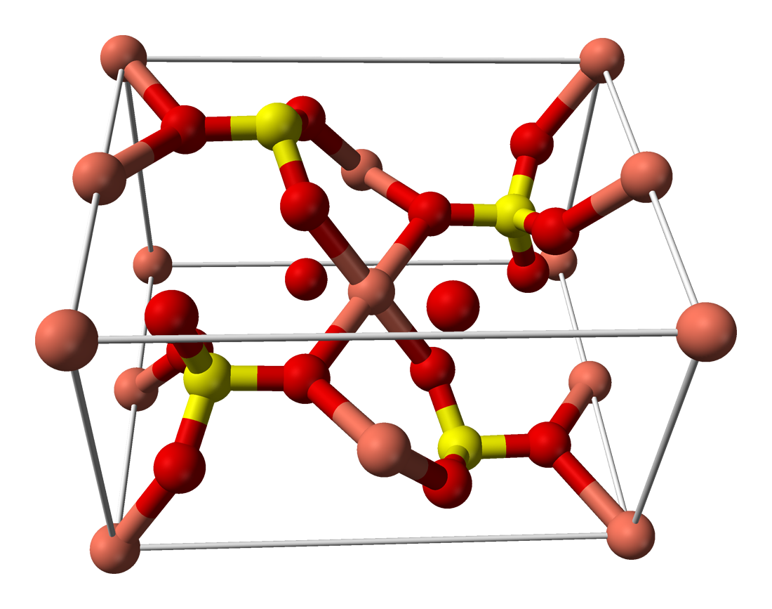 Ball-and-stick model of the unit cell of anhydrous copper(II) sulfate, CuSO4